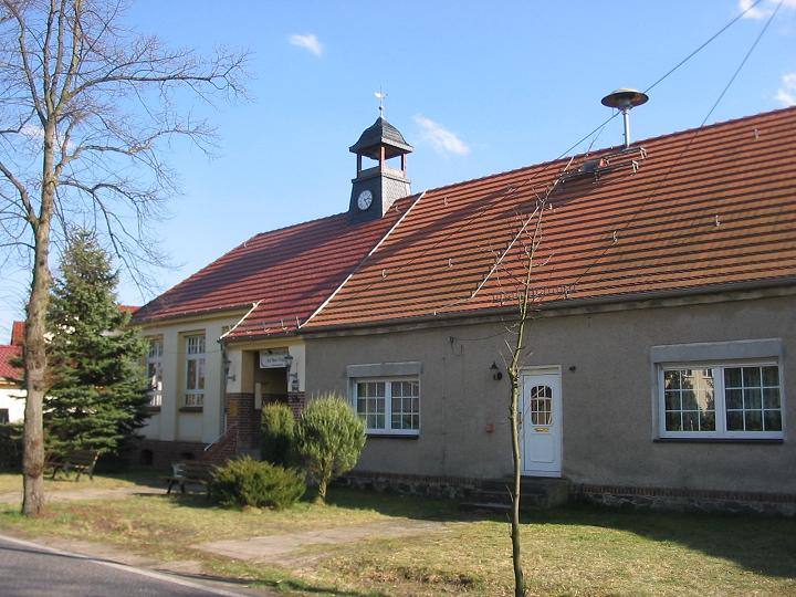 Community center (left, in the old school building) with restored bell tower in Jütchendorf. The village Jütchendorf is a part of the town Ludwigsfelde in the district Teltow-Fläming, state Brandenburg, Germany. The village is situated in the Nature park Nuthe-Nieplitz.